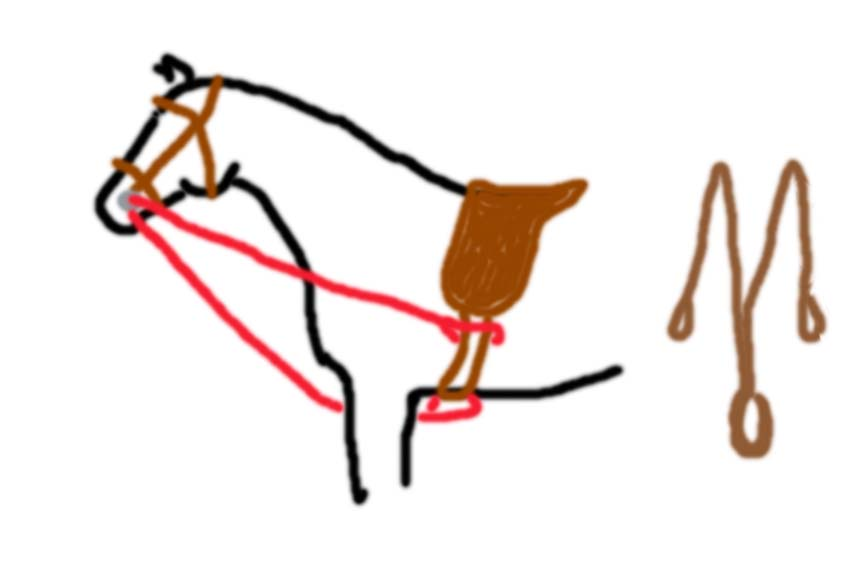 picture of a form of side reins which allow the horse more free movement